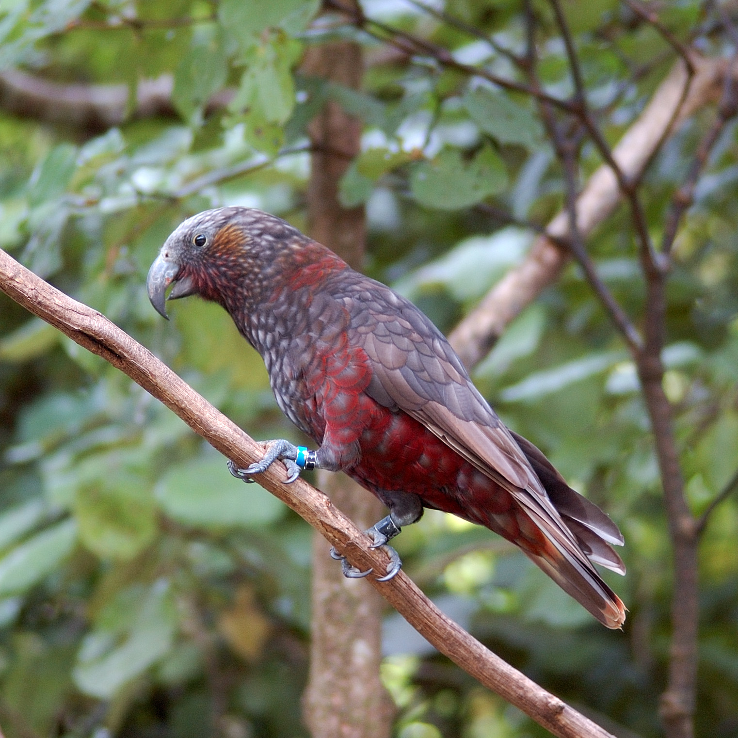 A New Zealand Kaka in Karori Wildlife Sanctuary, Wellington, North Island, New Zealand.